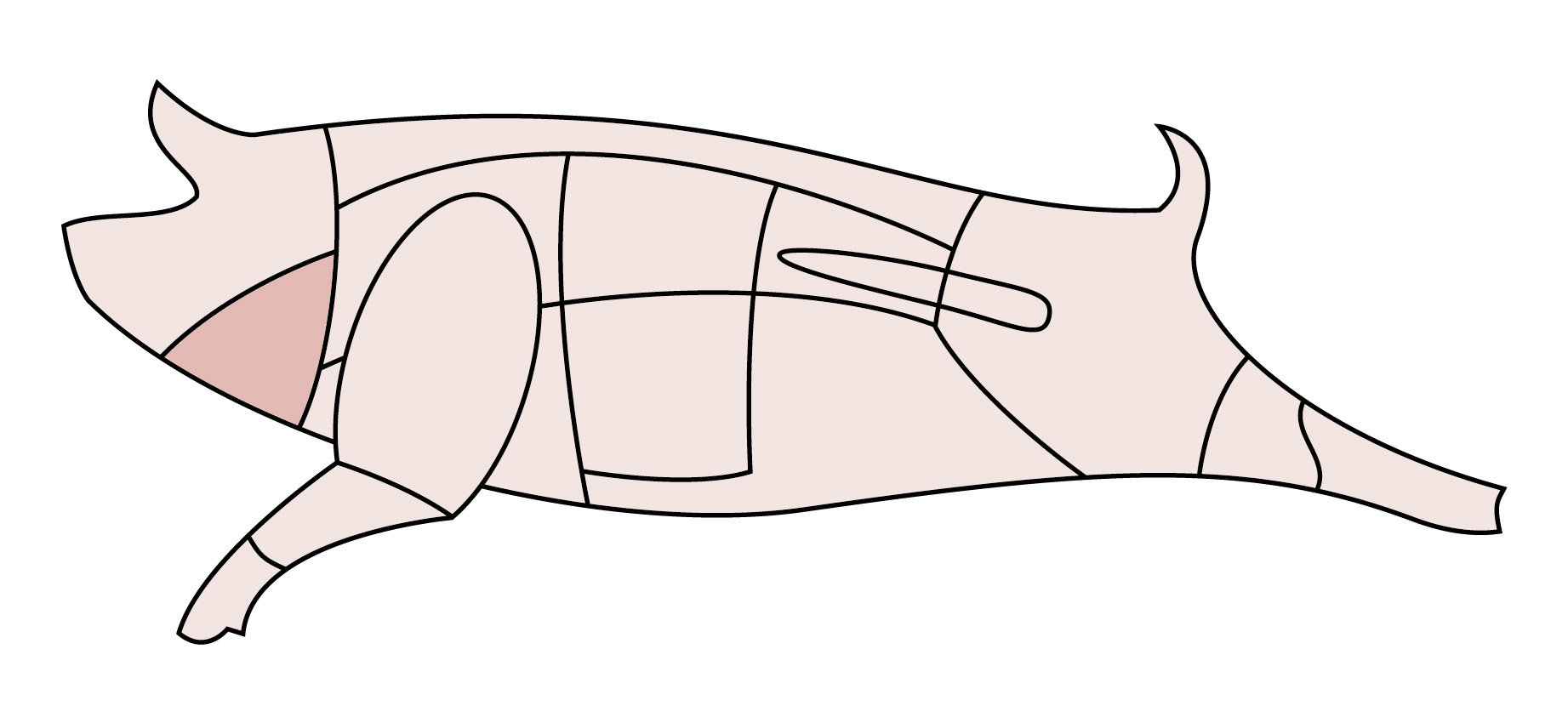 Cheek. Part of the porc's head.